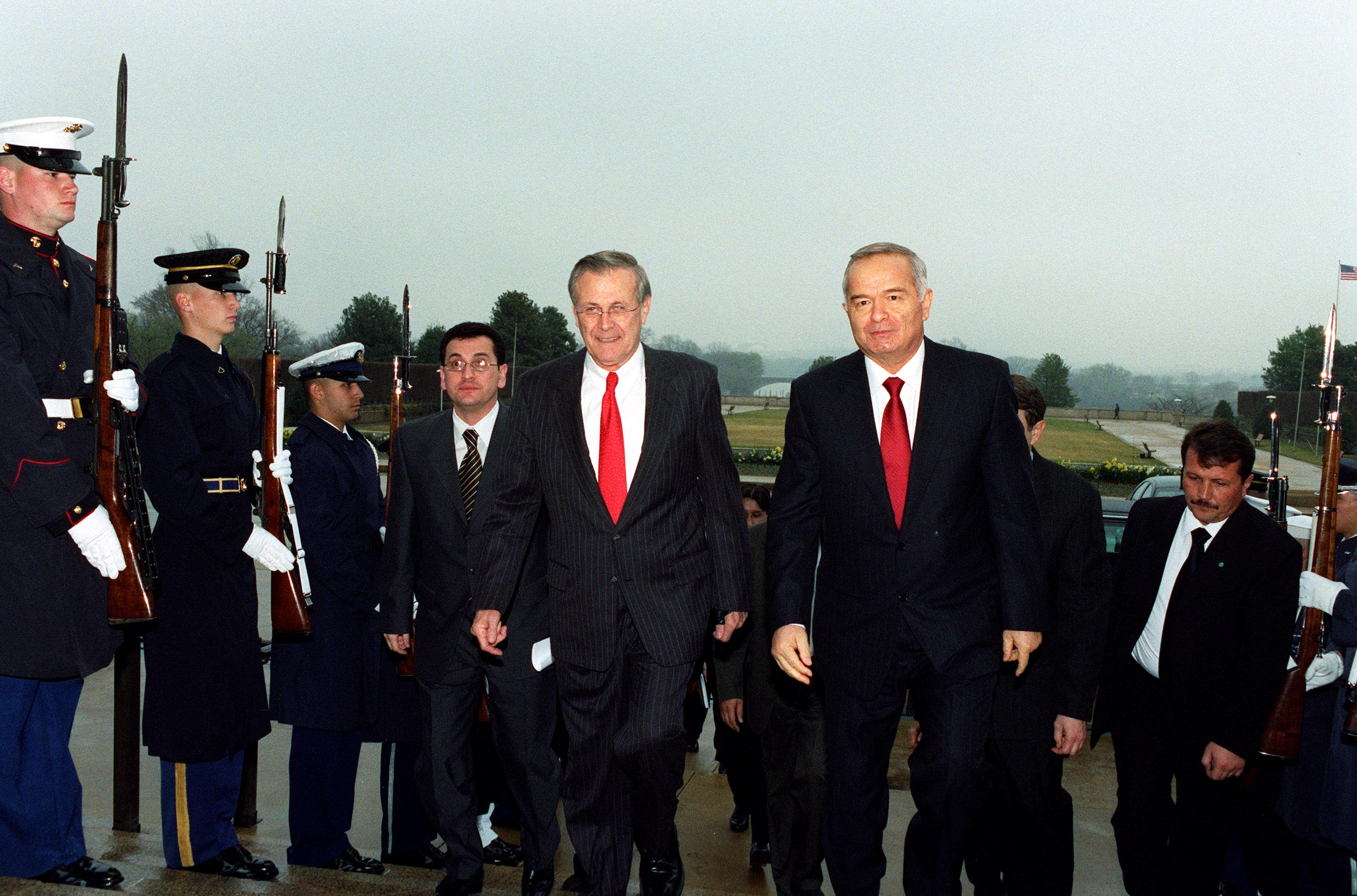 Uzbekistan President Islom Karimov (right) is escorted by Secretary of Defense Donald H. Rumsfeld through an honor cordon and into the Pentagon on March 13, 2002. Karimov and Rumsfeld will meet to discuss the war on terrorism and regional security issues.